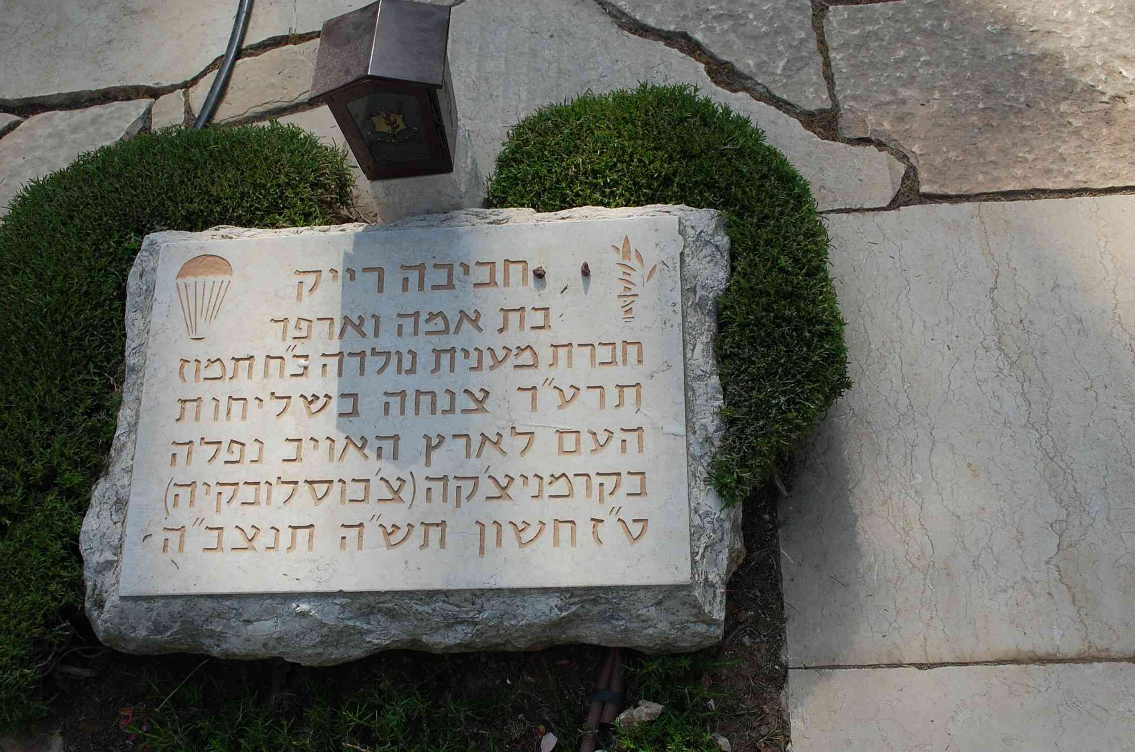 tombstone